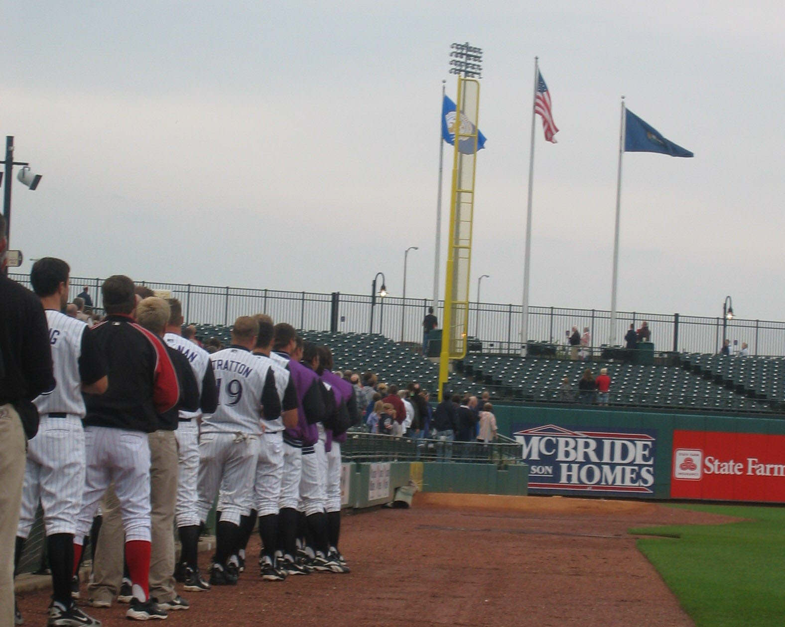 The Louisville Bats stand in front of their dugout for the national anthem before their April 21 game with the Syracuse Sky Chiefs. The Bats and Chiefs - top farm clubs of the Cincinnati Reds and Toronto Blue Jays, respectively - squared off on "America Supports You Day" in Louisville.